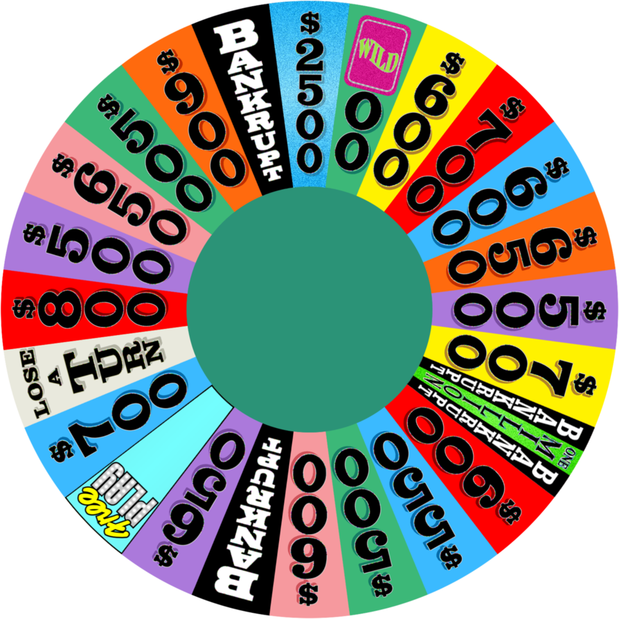 The template for Wheel of Fortune's Round 1 in Season 31.